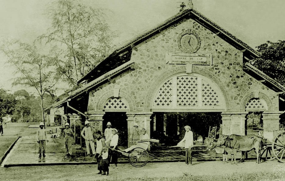 Photo of La Marché du Cap, former Vung Tau Old Market, shot in 1909. Collected by Thang - Nguyen Xuan - ArchTiếng Việt: Hình ảnh Chợ Cap, tức chợ Cũ Vũng Tàu chụp năm 1909.